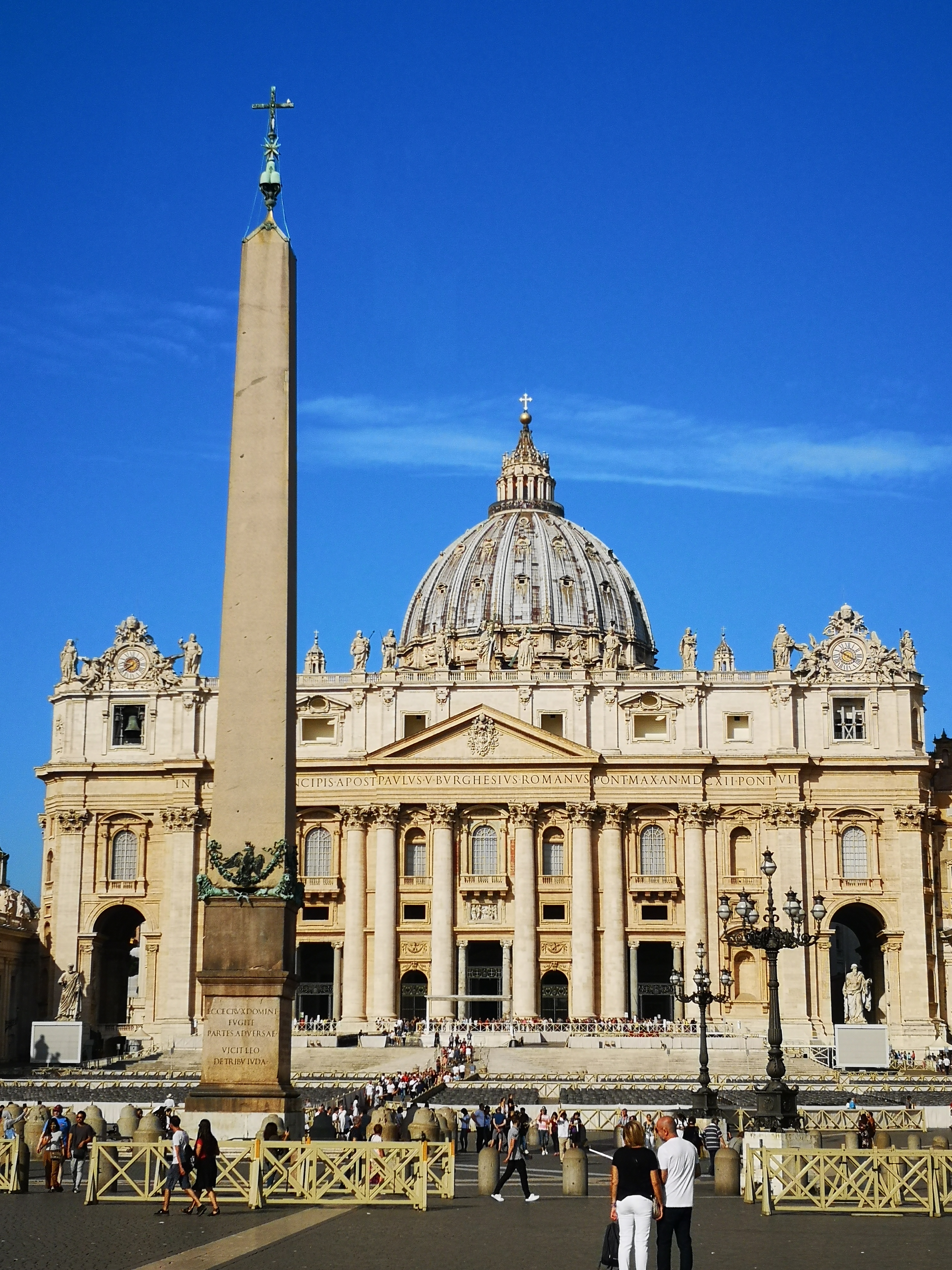 Vatican, St. Peter's Basilica